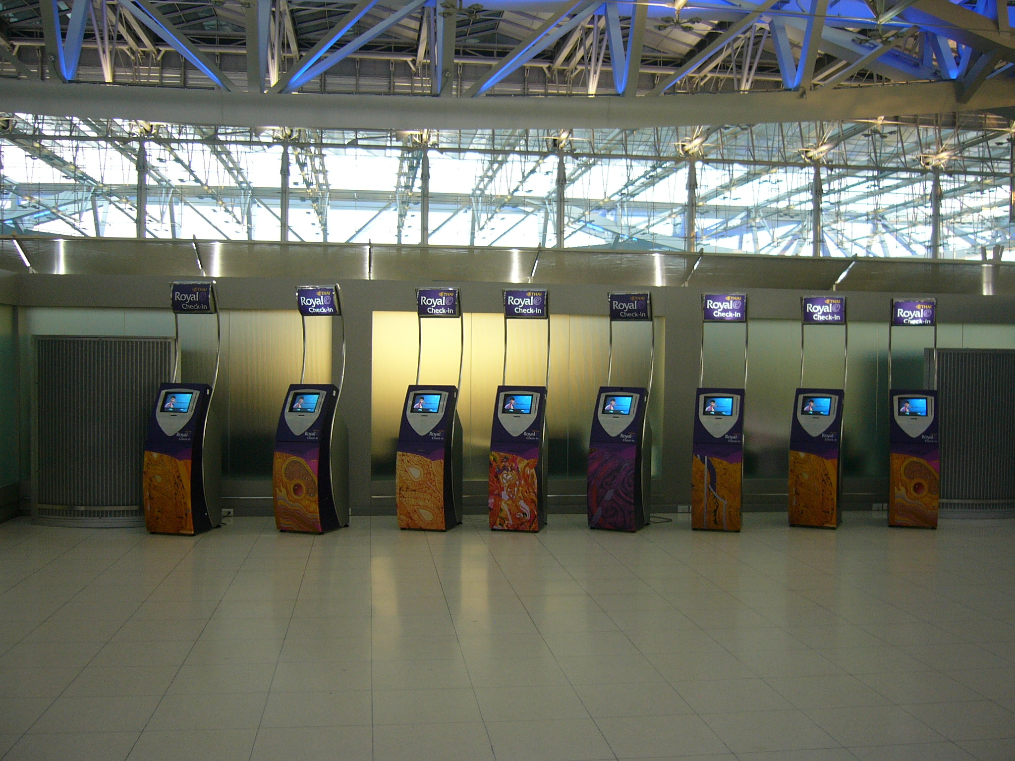 Ticket machines for self-service provided by Thai Airways at Suvarnabhumi International Airport near Bangkok, Thailand.